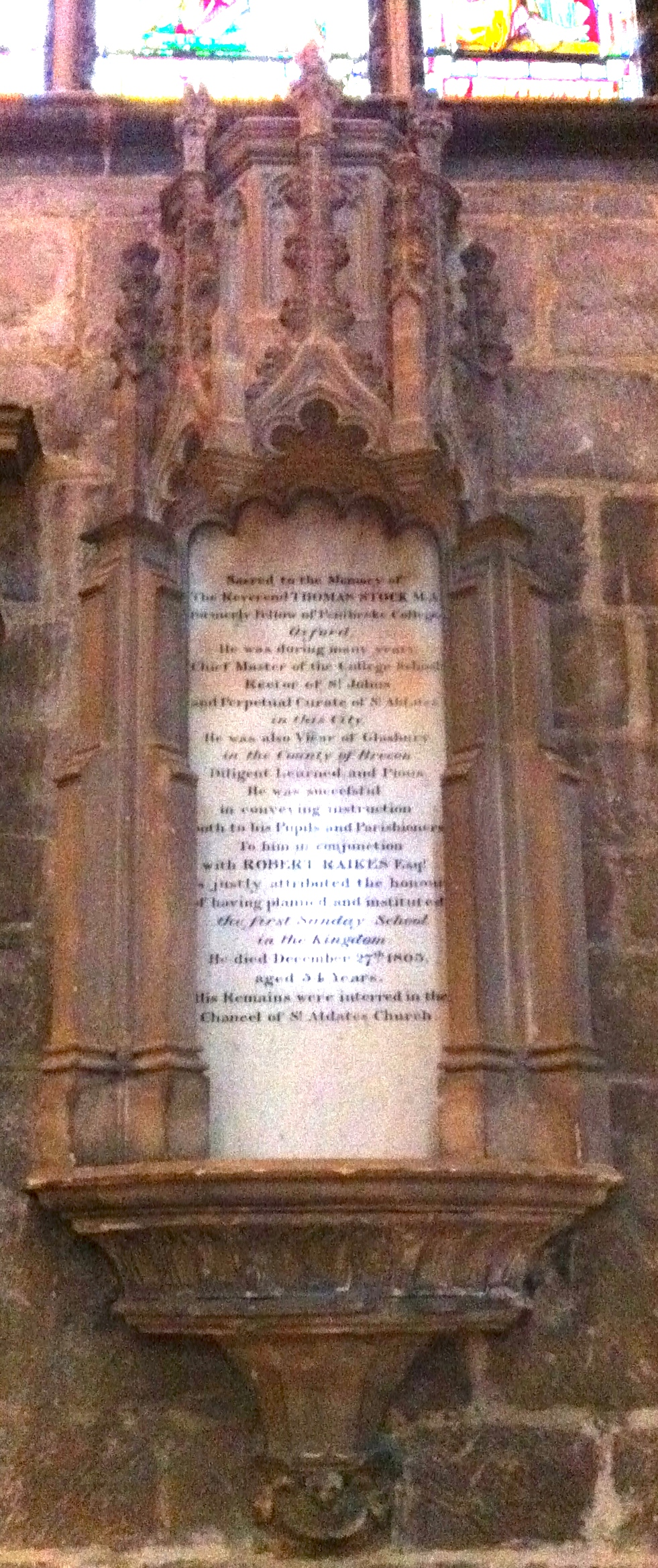 Memorial to Revd Thomas Stock, Fellow of Pembroke College Oxford. Died 27 December 1805.